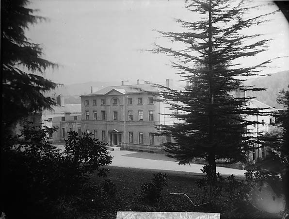 1 negative : glass, dry plate, b&w ; 16.5 x 21.5 cm.